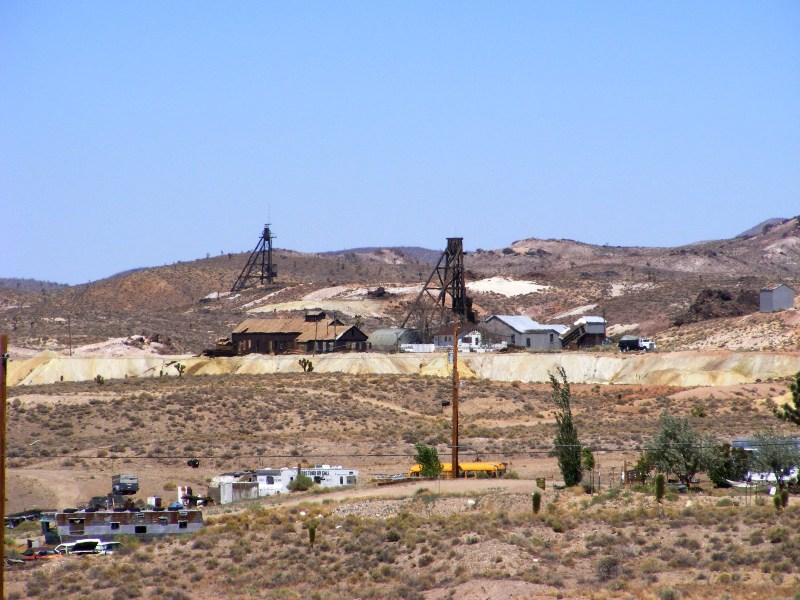 Florence Hill Mines, Goldfield NV. Gold was discovered in 1902. Goldfield laid claim to being the richest gold-mining camp in the world. From 1904 through 1918 the total gross production was $83,685,485. During this period, gold was $20.67 per ounce. At todays price for gold this would be almost 2 billion dollars.